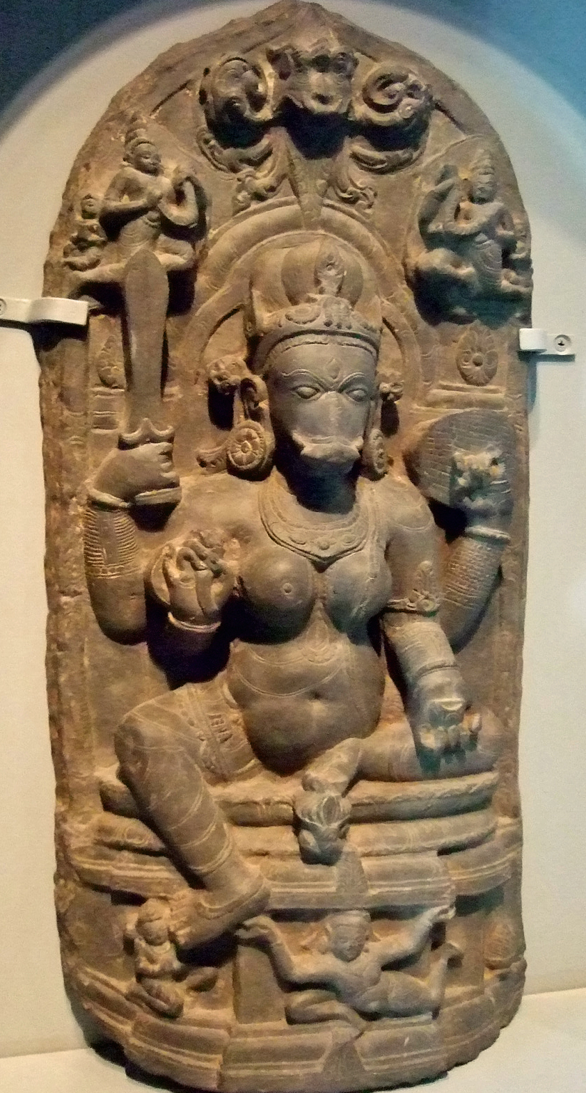 Shakti of the Hindu deity vishnu in the form of a boar (Varaha) 1000-1100 Ce India eastern Bihar state Chlorite. Photographed at the Asian Art Museum of San Francisco in California.